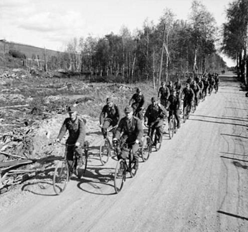 German mountain troops on the road after evacuating Oslo.